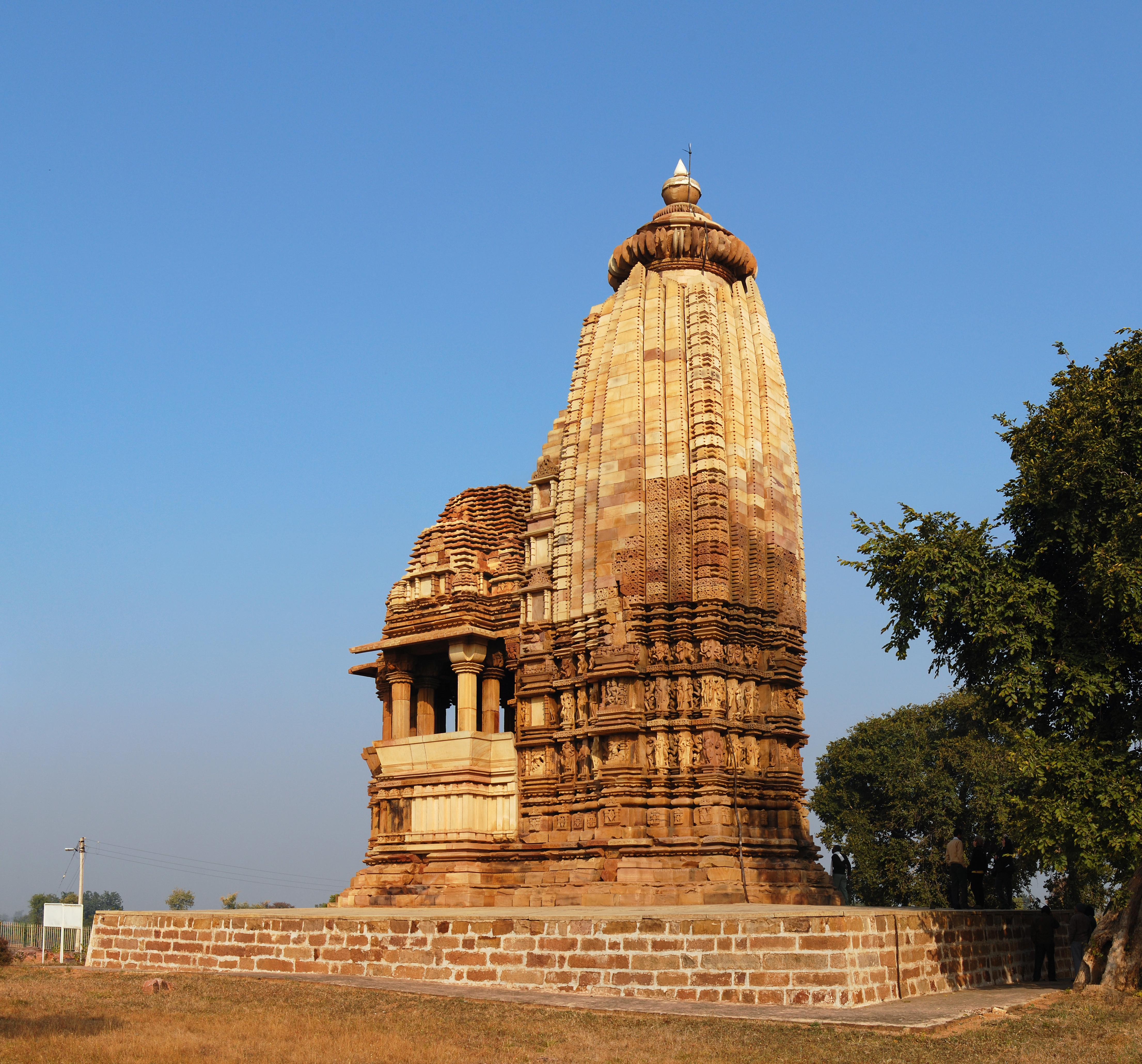 Chaturbhuja Temple, Khajuraho, India.